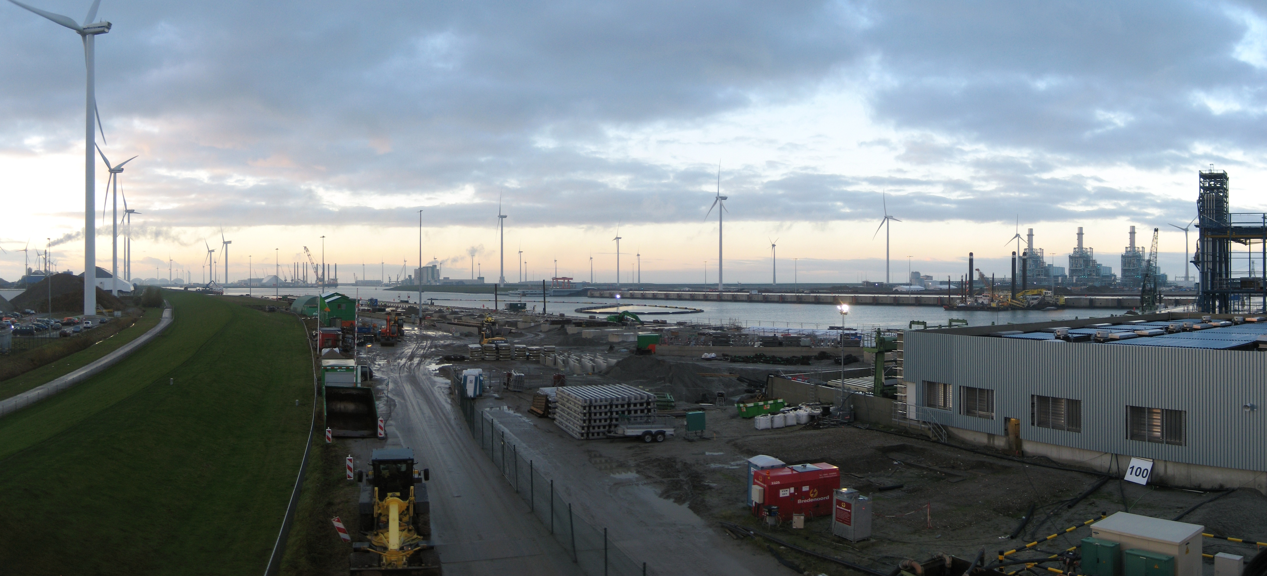 The Wilhelminahaven in the Eemshaven, a port in the Dutch province of Groningen.